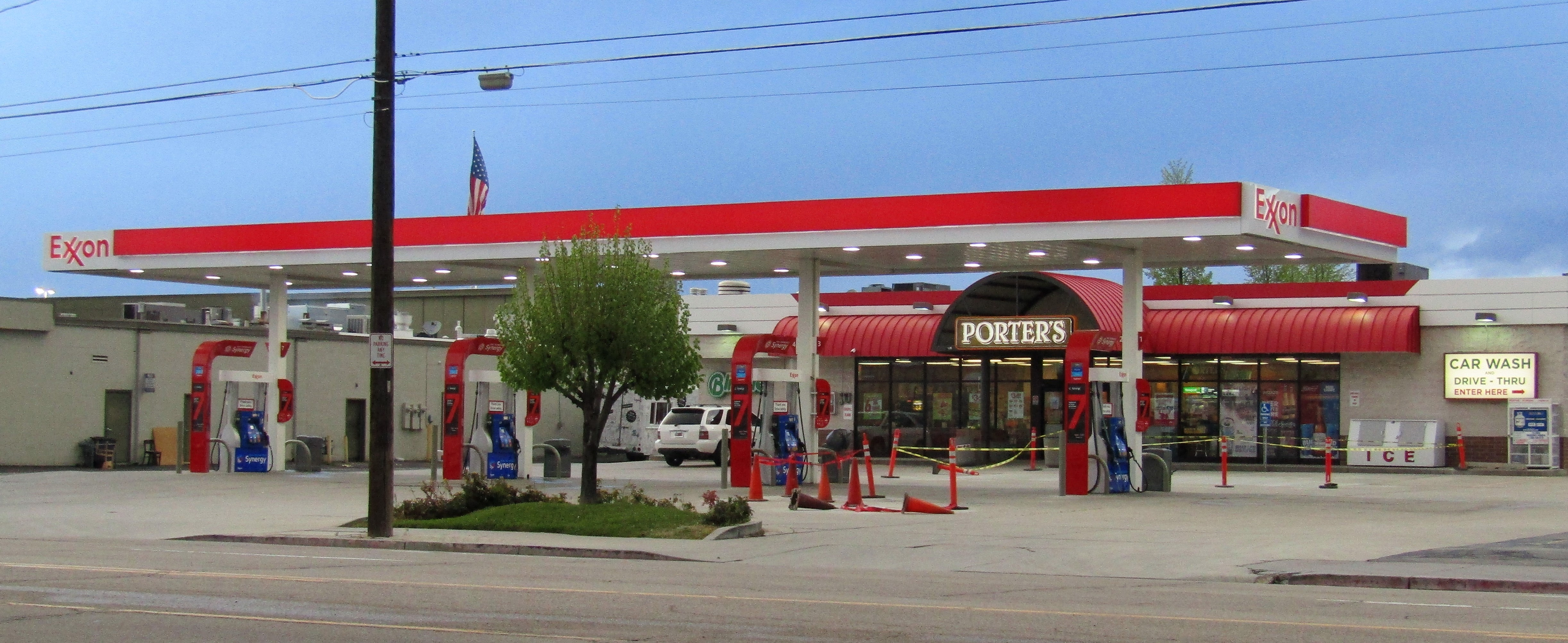 Exxon gas station at 430 W 1230 N, Provo, UT 84604.